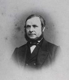 Michael Pedersen (1821-1900), Danish farmer and politician, MP